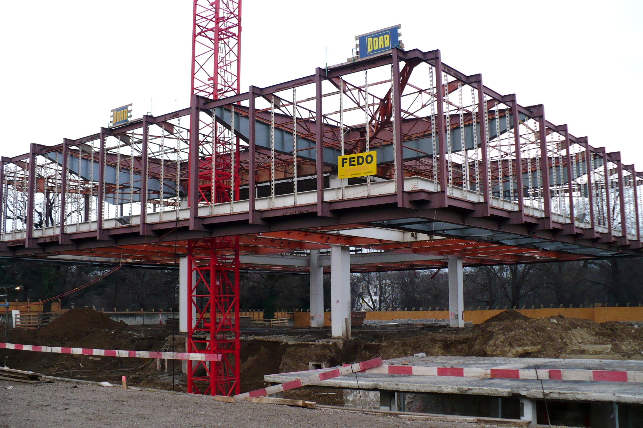 Former Museum of the 20th century in Vienna, reduced to steel framework mounted on four columns during restoration works.